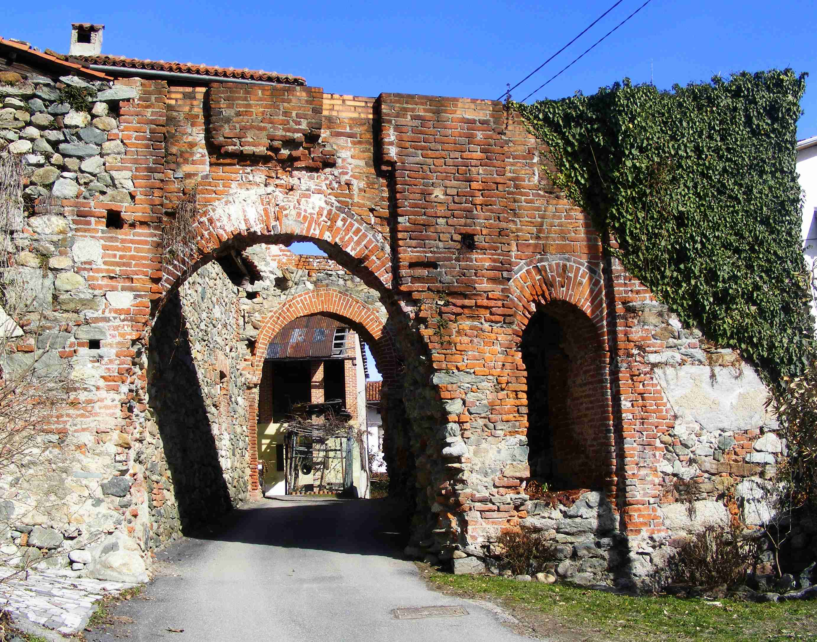 Dorzano (BI, Italy): remains of the castle.